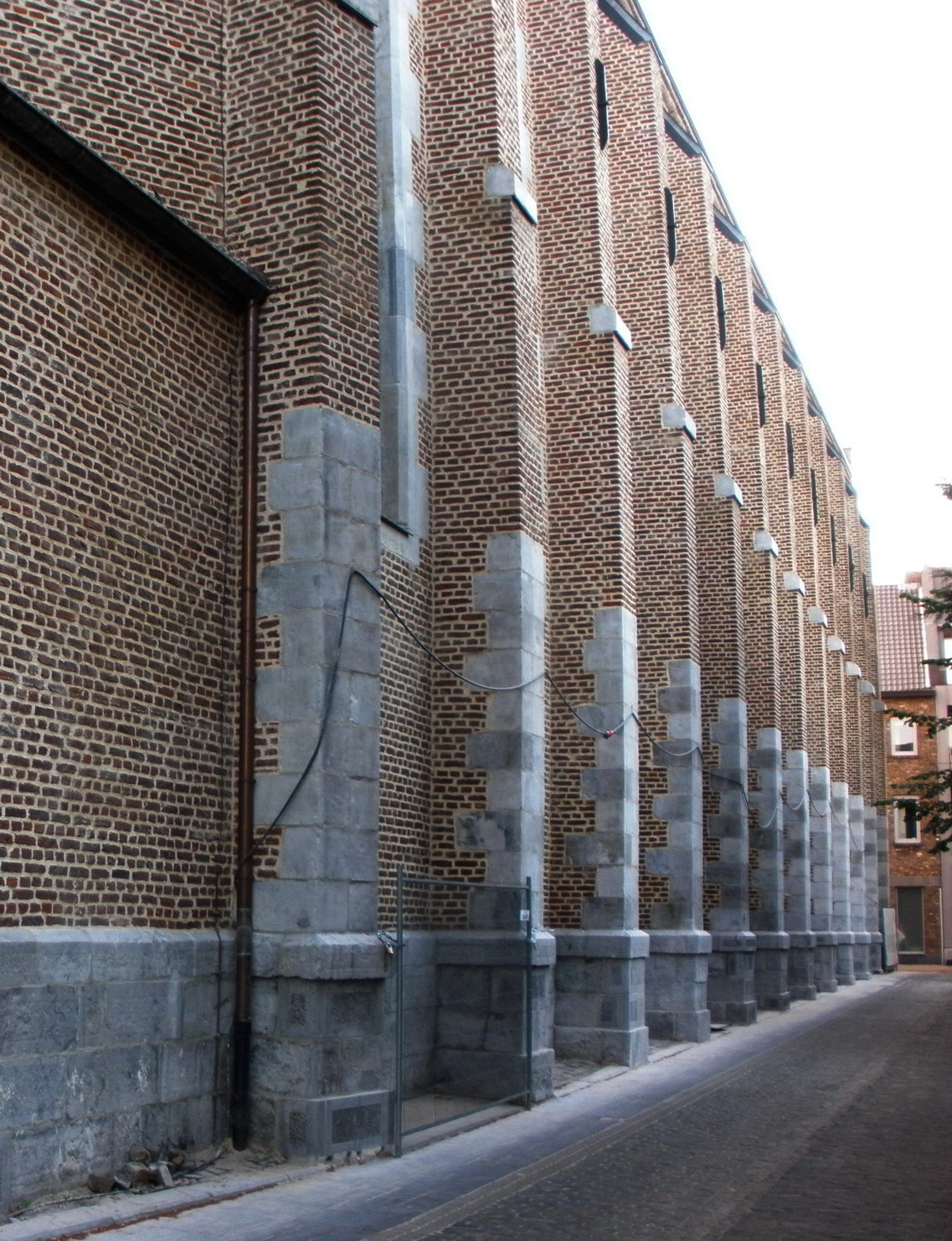 Maaseik, Belgium. View of South side of Boomgaardstraat with facade of former Franciscan Church, now part of John Selbach Museum.